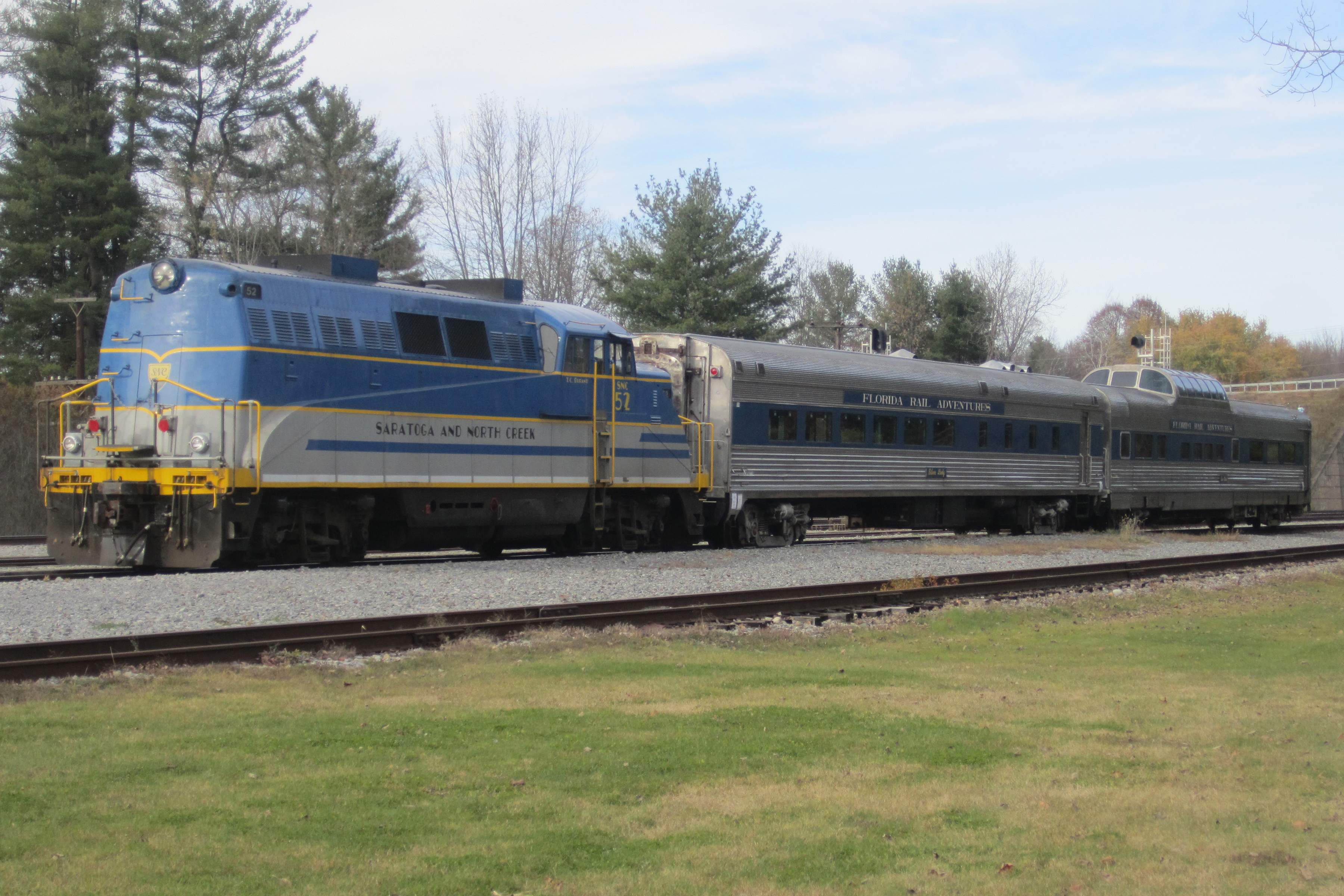 Saratoga and North Creek Railroad train idling at the Saratoga Springs railroad station